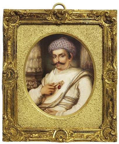 Ozias Humphry, RA, 1742-1810, Portrait of Hyder Beg Khan, Dated 1786, Watercolour on ivory, Inscribed on the backing paper, probably by the artist, ‘Hyder Beg Khan / the minister of [...] Asoph ul Dowlah / 1786 / Lucknow’ Museum no. Evans 142, Alan Evans Bequest, given by the National Gallery Hyder Beg Khan was the minister to Asaf-Au-Daula, the Nawab (ruler) of Oudh.